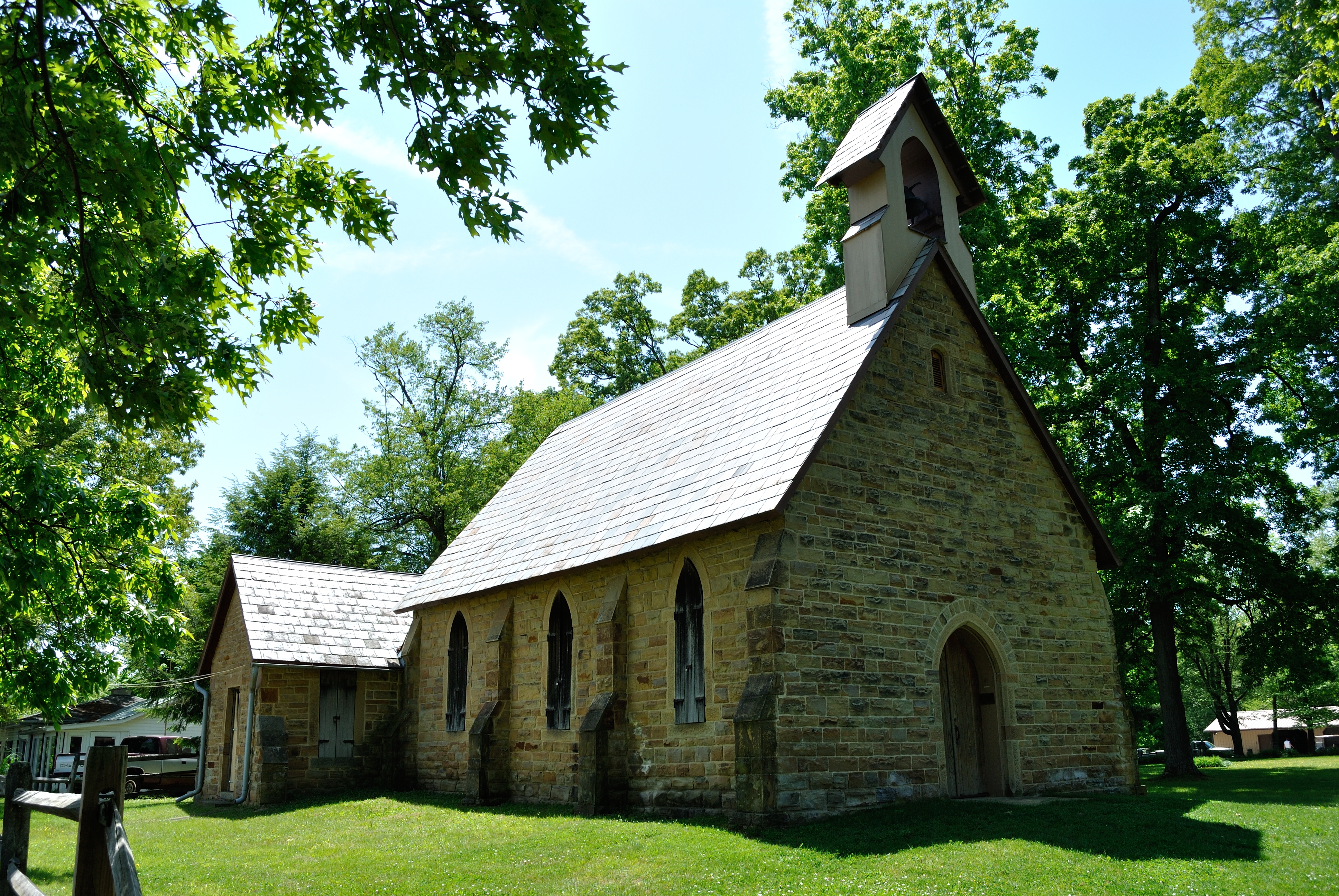 Christ Church at the Quarry was built in 1863. It is located near Gambier, Ohio and is listed on the NRHP.